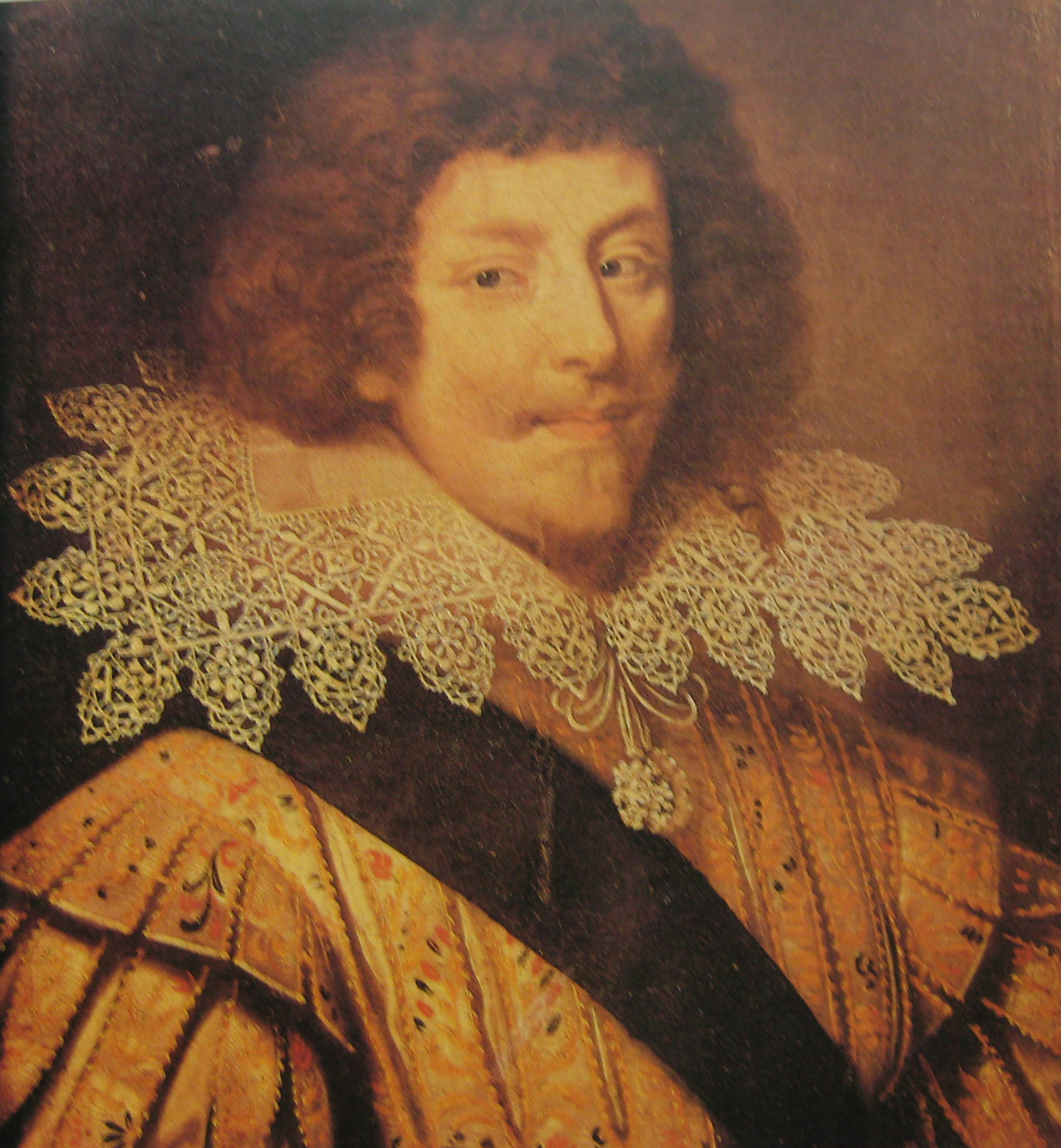 Portrait of Henri II de Montmorency (1595-1632)